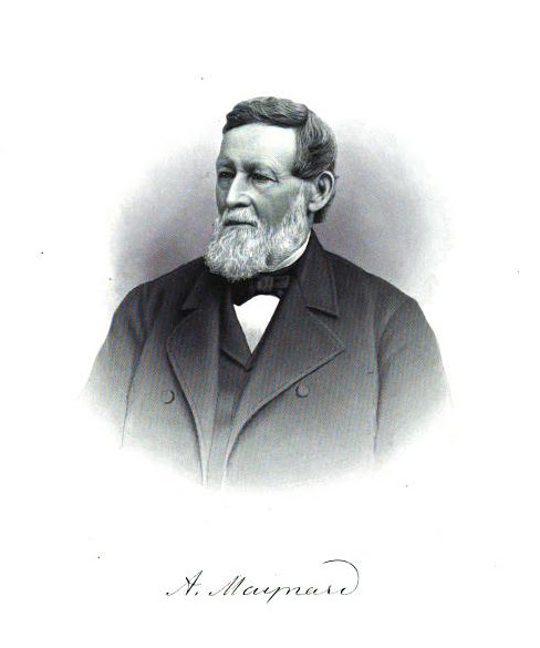 Amory Maynard, mill owner and founder of Maynard, Massachusetts, UA